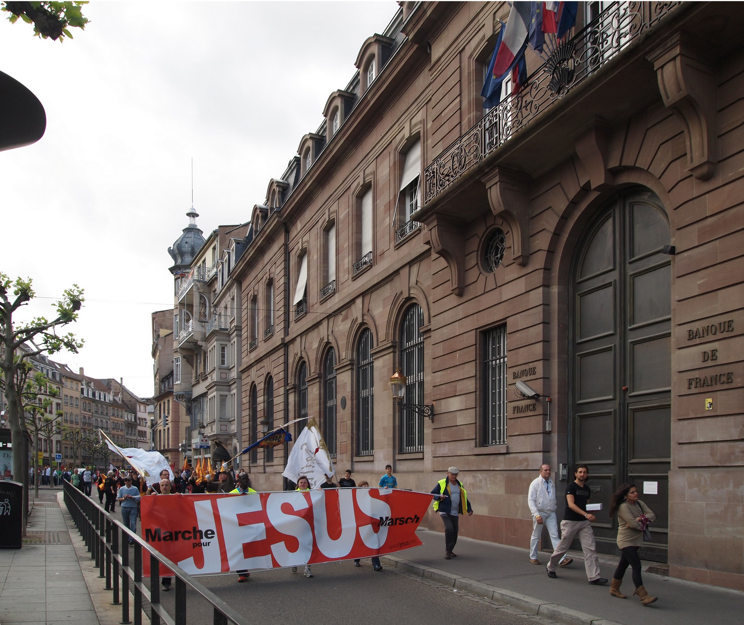 March for Jesus 2012 in Strasbourg, France